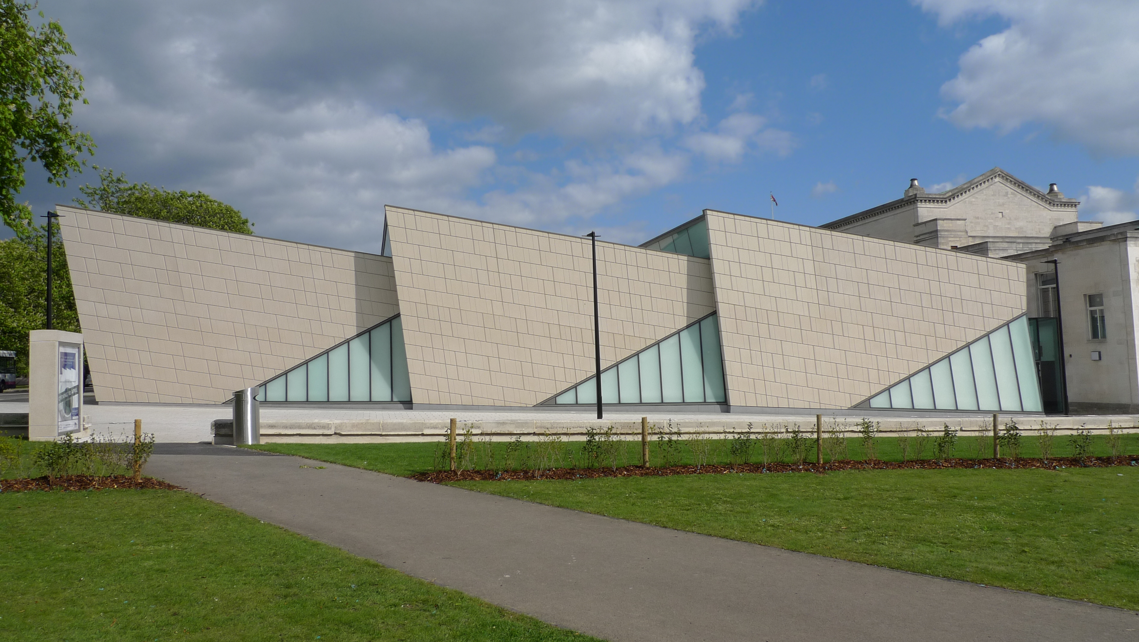 SeaCity Museum, Civic Centre, Southampton. Image taken from the West. The pavilion was built in 2012 and designed by Wilkinson Eyre. It, and the adjoining magistrates block of the Southampton Civic Centre now house SeaCity Museum. SeaCity Museum official website